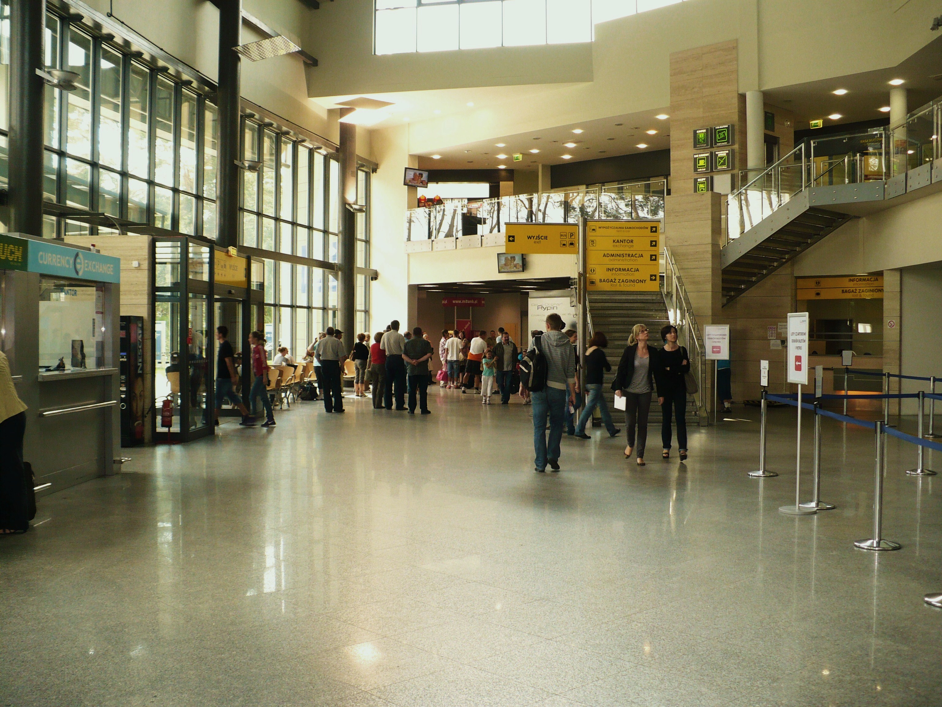 Bydgoszcz-Szwederowo Airport